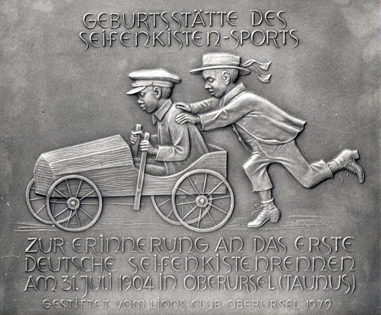 In September 1979 the Lions Club of Oberursel, Germany, donated a bronze plaque created by local artist Georg Hieronymi commemorating the 75th anniversary of the first Kid Auto Race in Germany 1904 in Oberursel (Taunus). It is fixed at the museum Vortaunusmuseum and was inaugurated on September 22, 1979